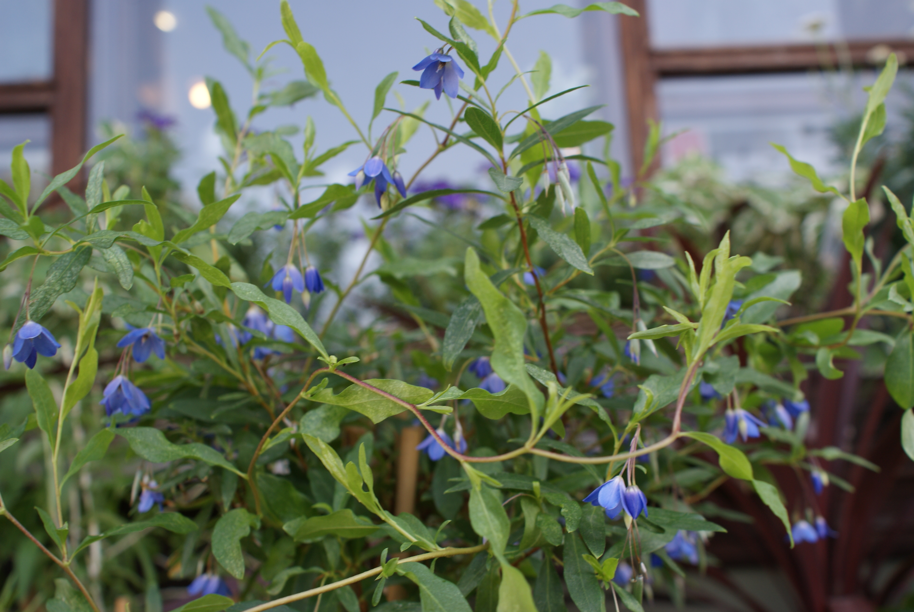 Billardiera heterophylla in Vilnius